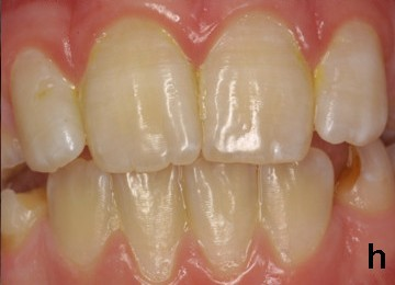 amelogenesis imperfecta, hypomaturation type. The enamel has normal thickness and hardness but it's with a white-ish surface. They may be mistaken for fluorosis.